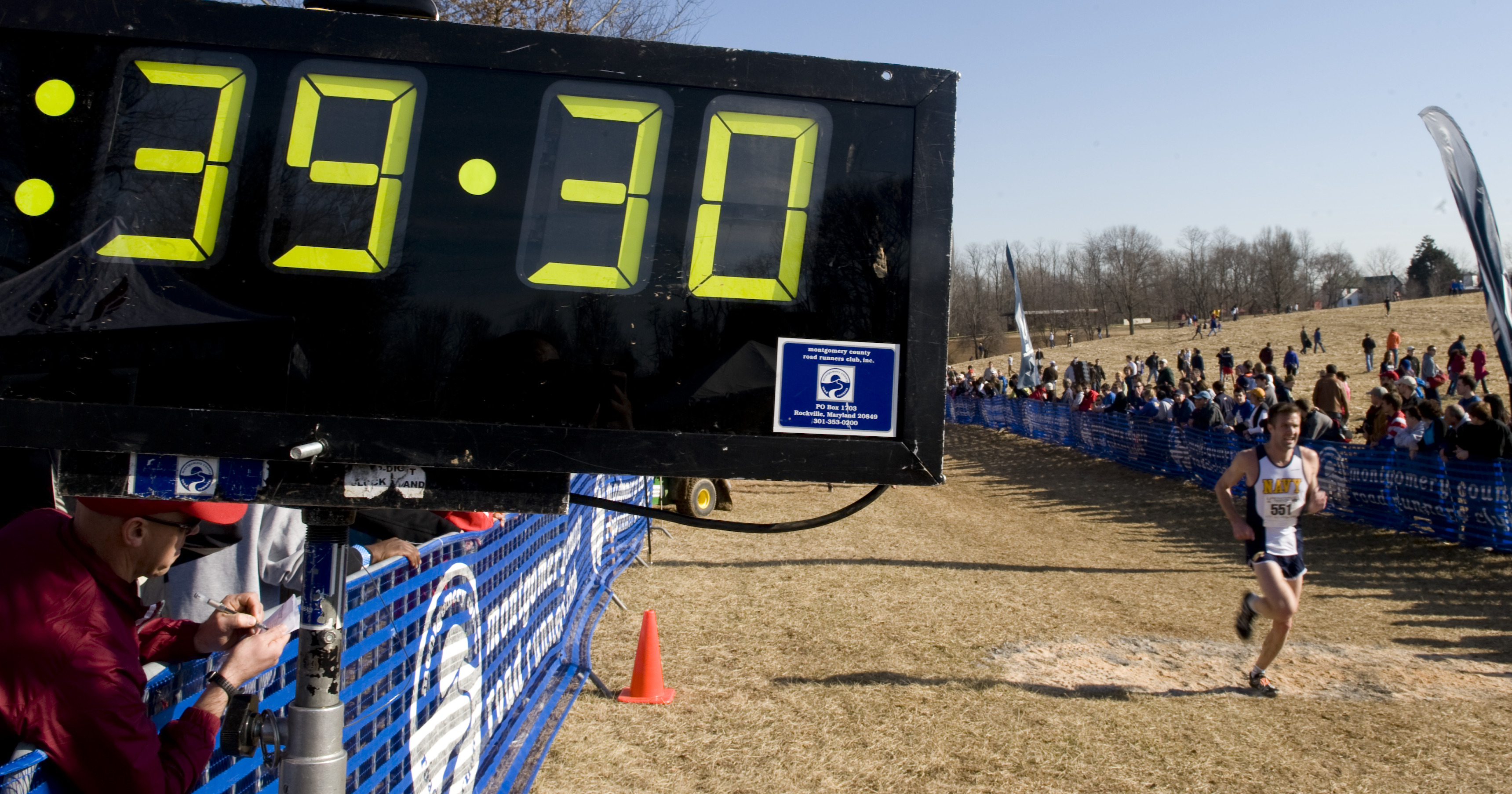 DEERWOOD, Md. (Feb. 7, 2009) Lt. j.g. Aaron Lanzel takes second place at the Armed Forces Cross Country Championship with a time of 39:32. Lanzel has competed with the cross country team for five years and has mentored some of the junior runners. (U.S. Navy photo by Mass Communication Specialist 2nd Class Jhi L. Scott/Released)